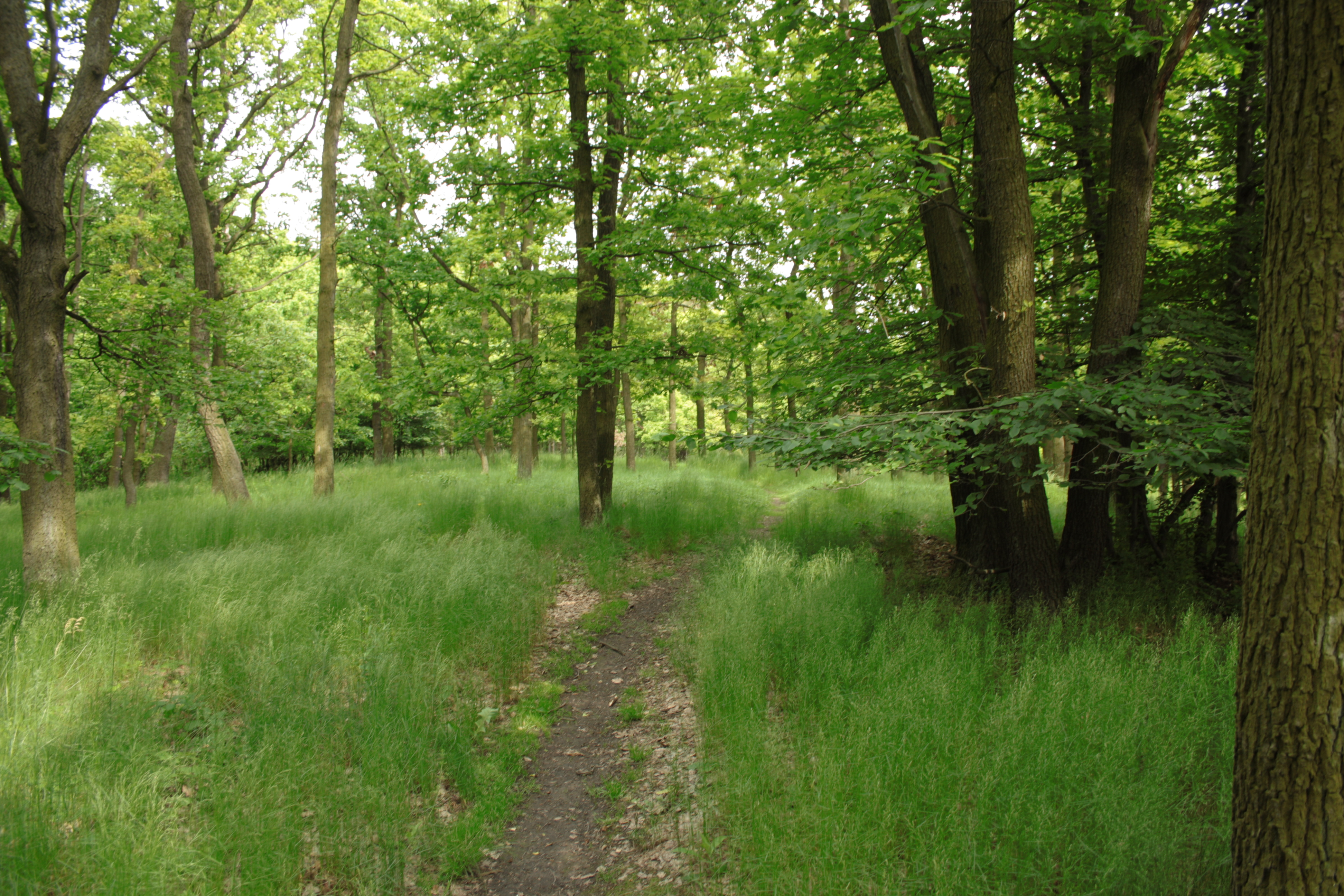 Zvolská homole natural reserve near the towns of Zvole and Vrané nad Vltavou - forests; Central Bohemian Region, CZ This photograph was taken with a DSLR from WMCZ's Camera grant.